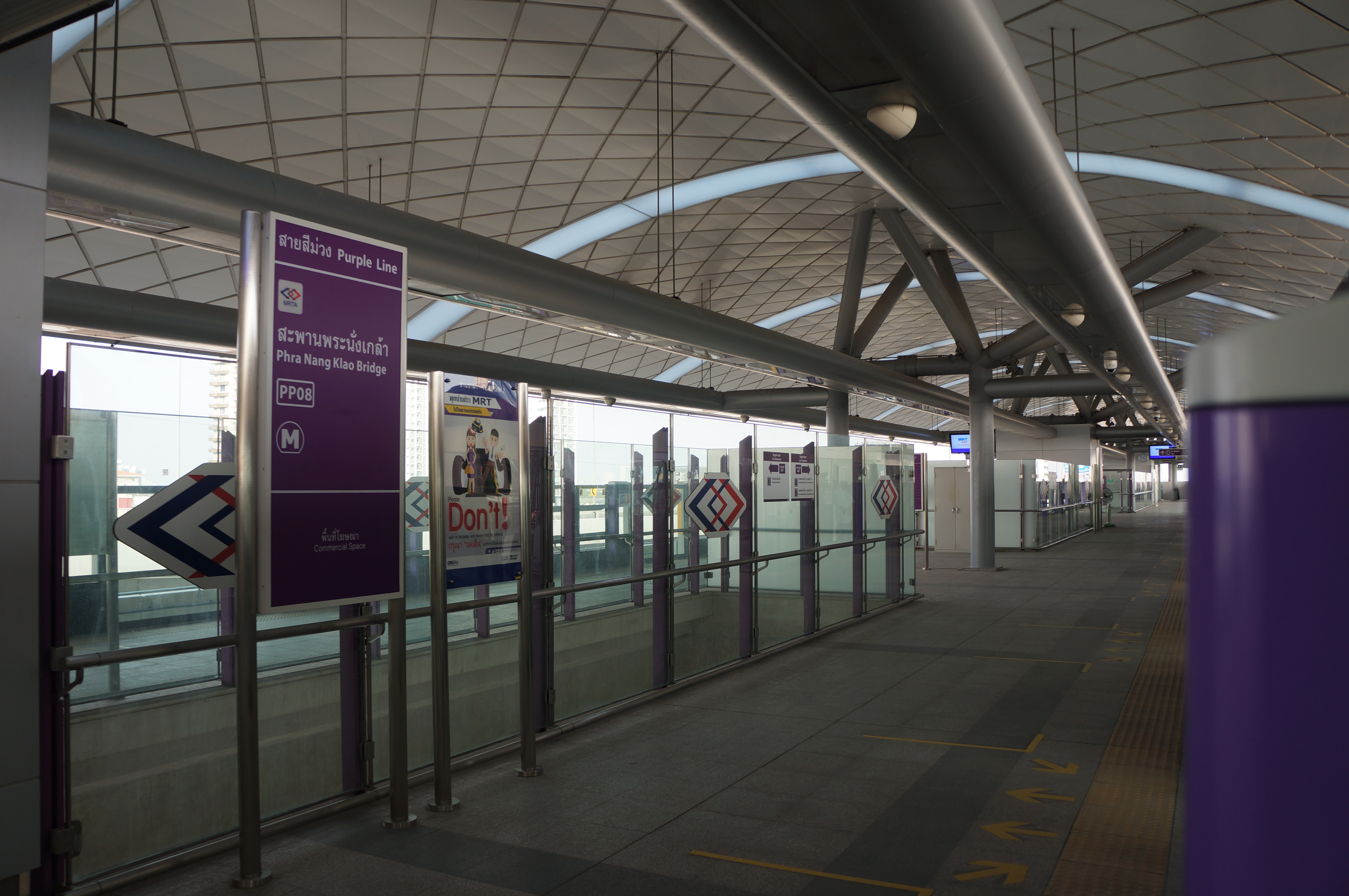 201701 Phra Nang Klao Bridge Station